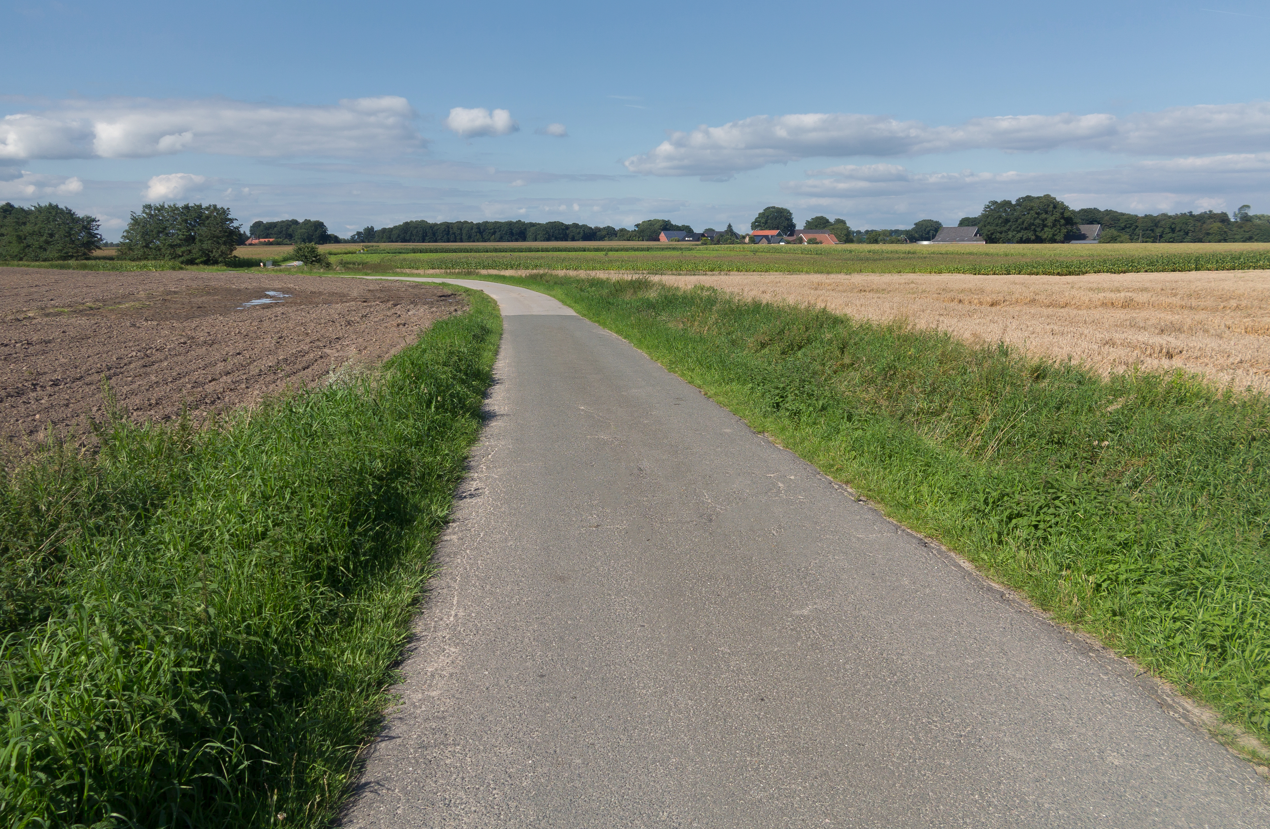 Borkenwirthe, road panorama near Weddingesch-Baulo